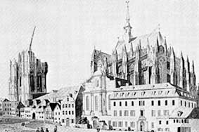 Cathedral, St. Johann Evangelist and the building of the seminary in Cologne. Coloured copper engraving by Johann Ziegler, following a drawing by Lorenz Janscha, 1788.